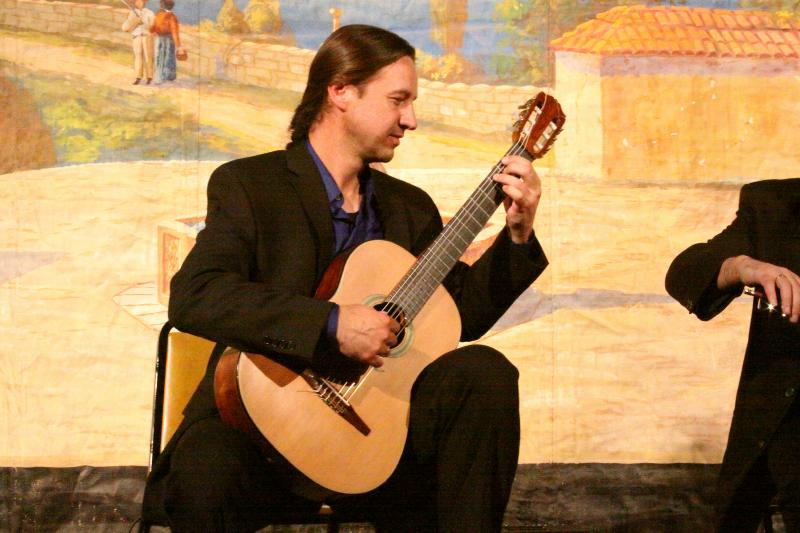 Classical Guitarist Brad Ritcher appears at the Poncan Theatre in Ponca City, Oklahoma on March 26, 2011. Photo Credit: Hugh Pickens Note: This photo is licensed under a Creative Commons Attribution 3.0 license which means that attribution must be provided with any use of this photo in the manner specified by the author. Any use of this photo or any derivative work using this photo in print or on the web must include as an attribution, a photo credit to Hugh Pickens as indicated above and, if used on the web, must include a link to the web site of Hugh Pickens at